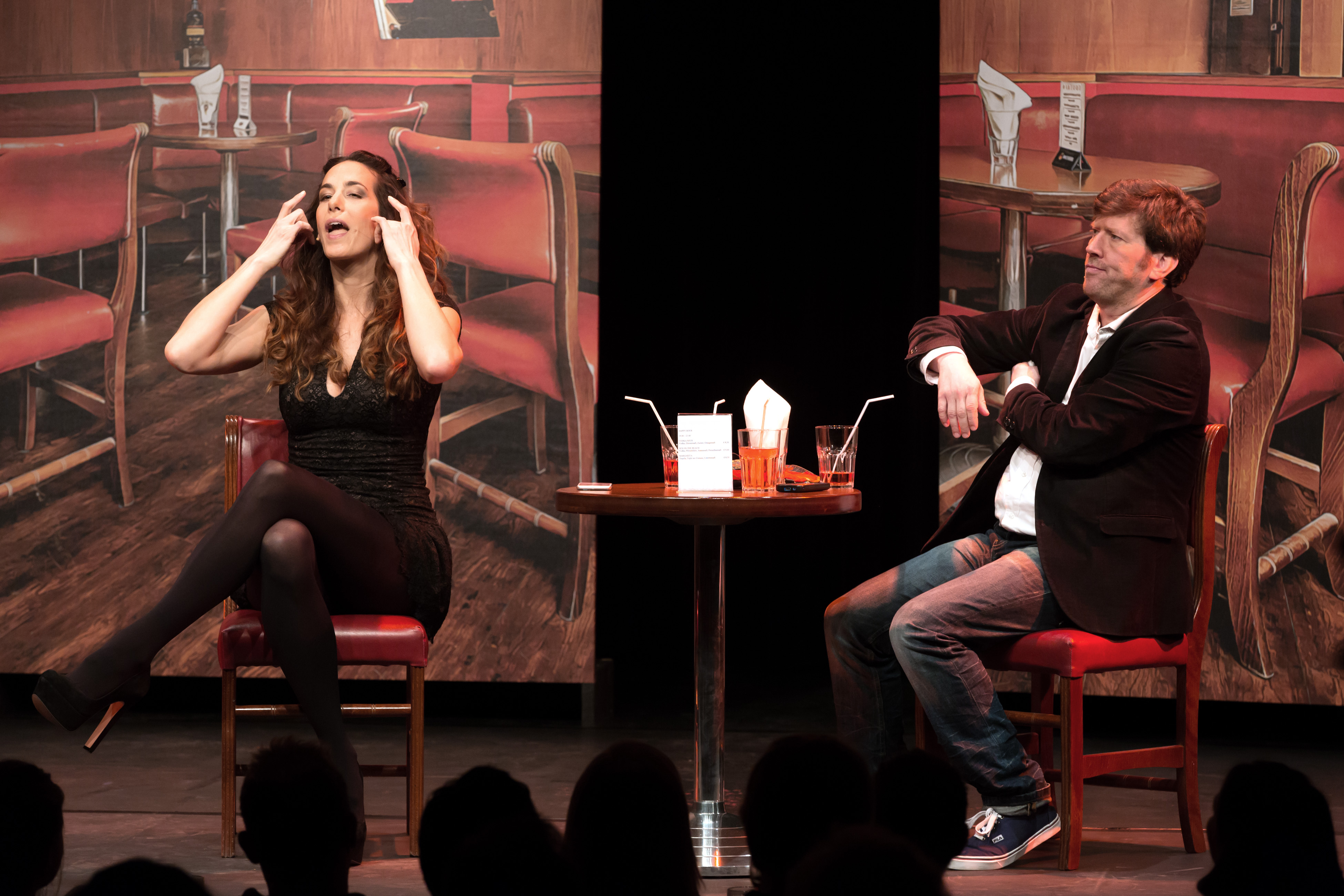 Premiere of Match Me If You Can with Nina Hartmann and O. Lendl at Metropol in Vienna, Austria.